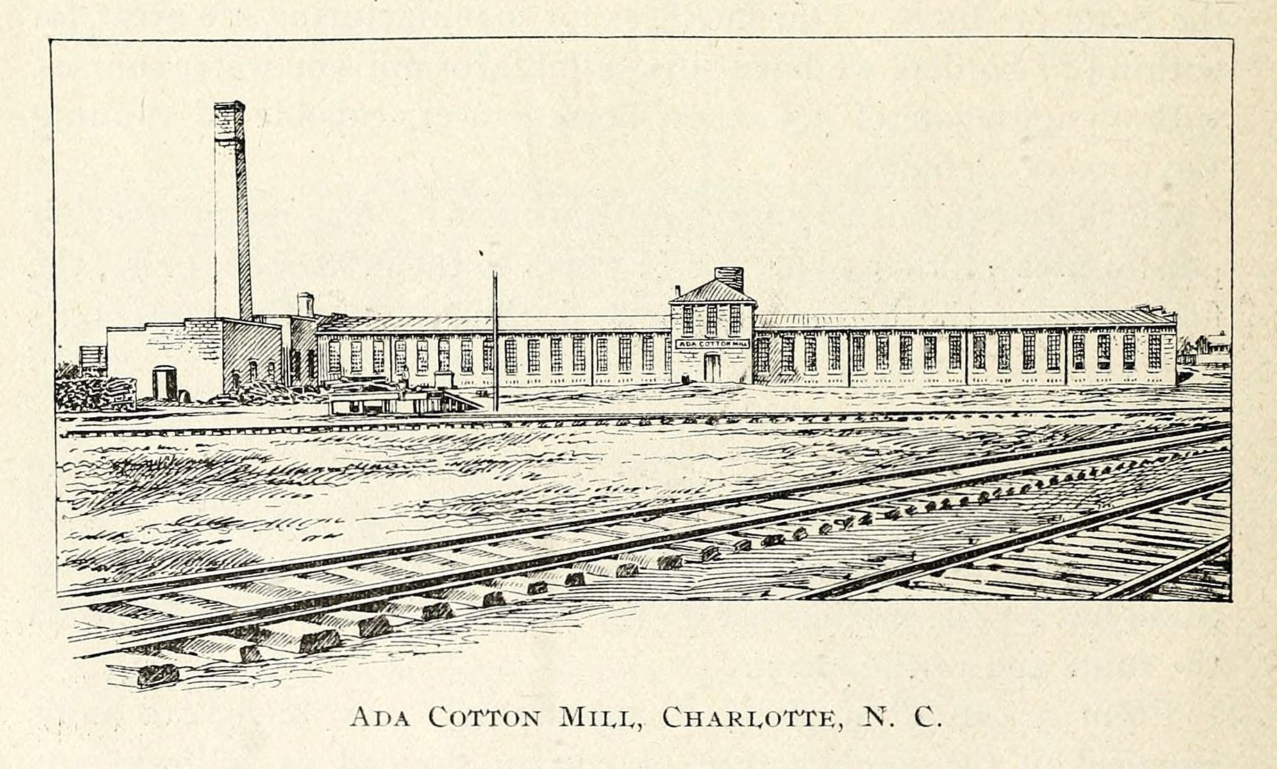 Ada Cotton Mill, in Charlotte, North Carolina, United States. From the 1897 Annual report of the Bureau of Labor Statistics of the State of North Carolina, p.14.